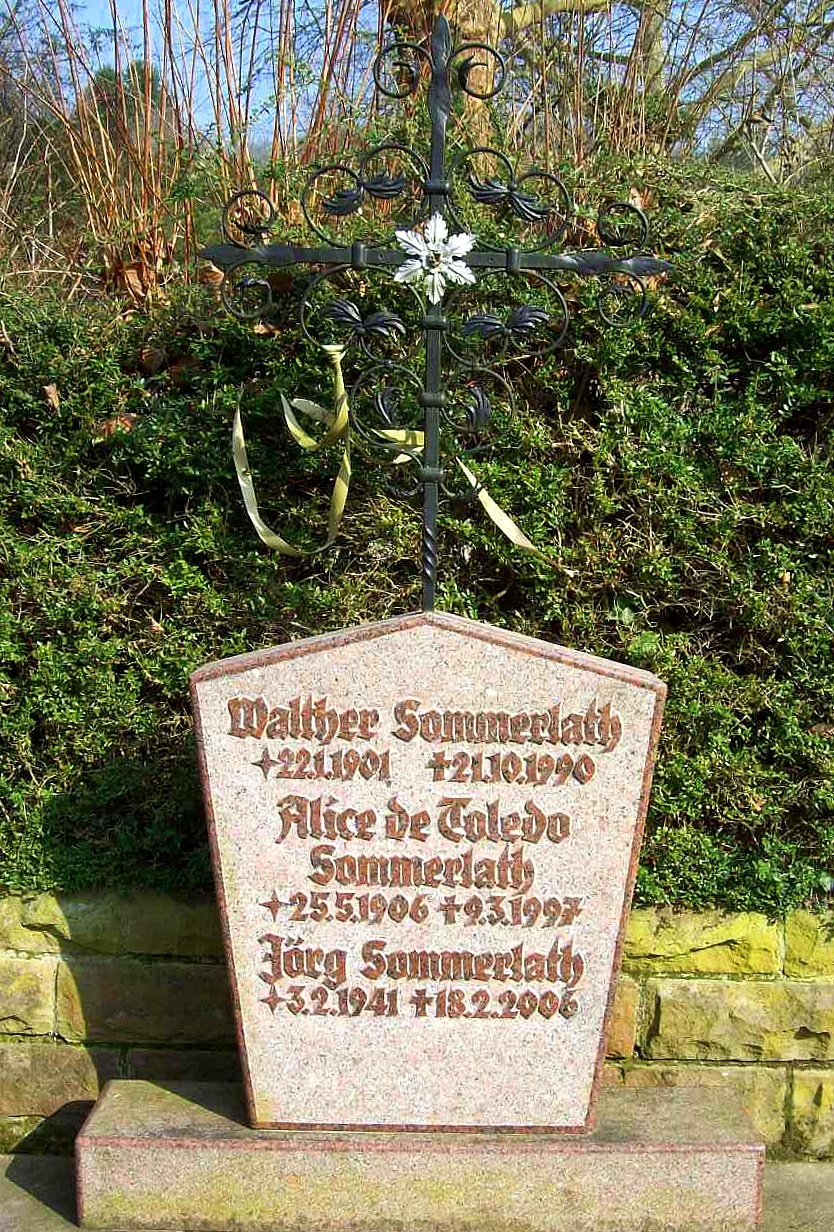 Grave of Walther Sommerlath and Alice de Toledo Sommerlath, parents of Queen Silvia of Sweden, cemetery Heidelberg-Handschuhsheim, Germany